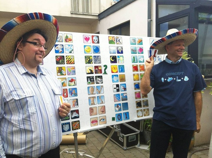 Alain Rivollet (right) showing "Concept" with Gaëtan Beaujannot